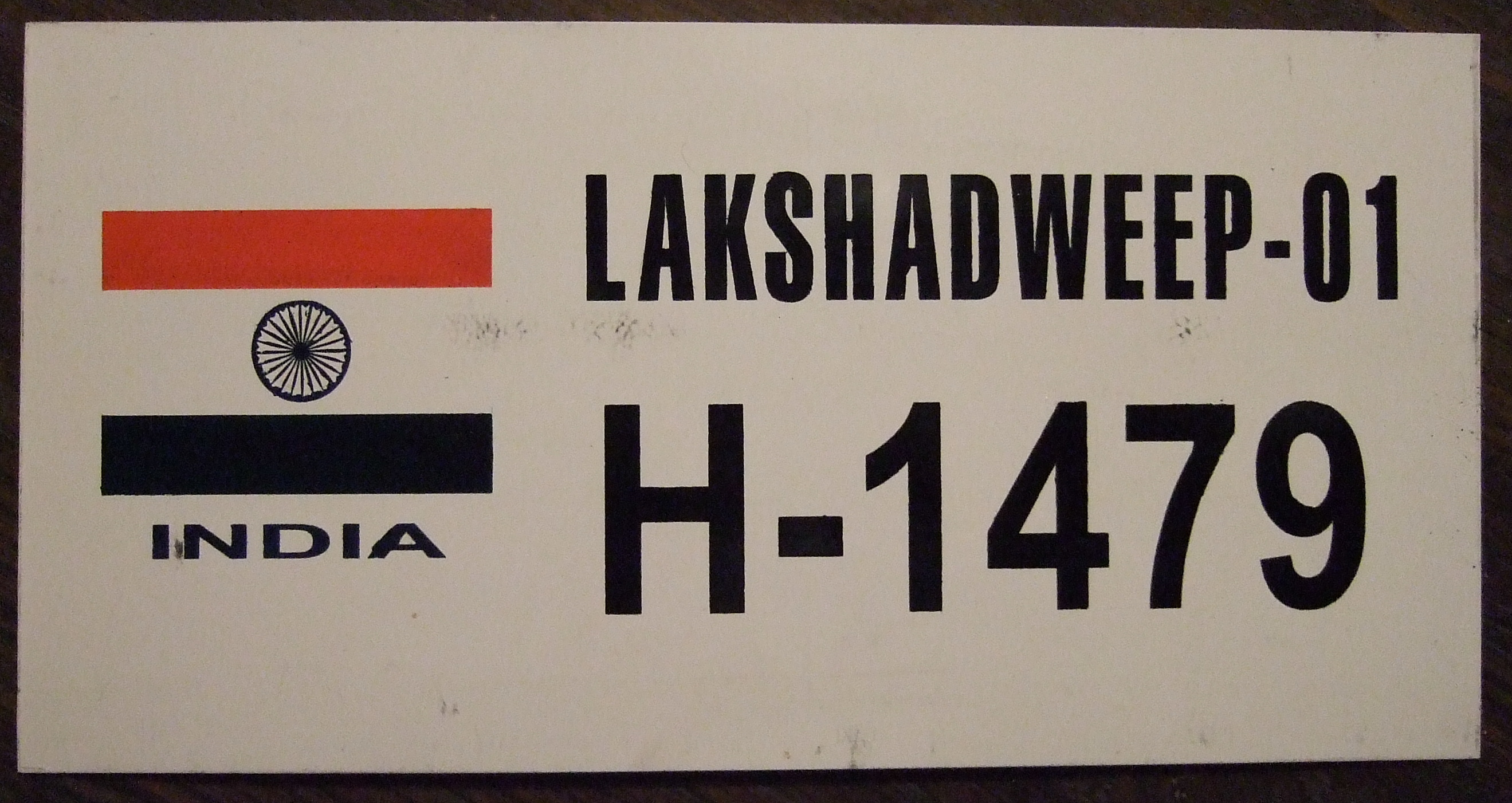 This plate in Western Script is from the Laccadive Islands in the Arabian Sea of India's southwest coast. These islands belong to India.